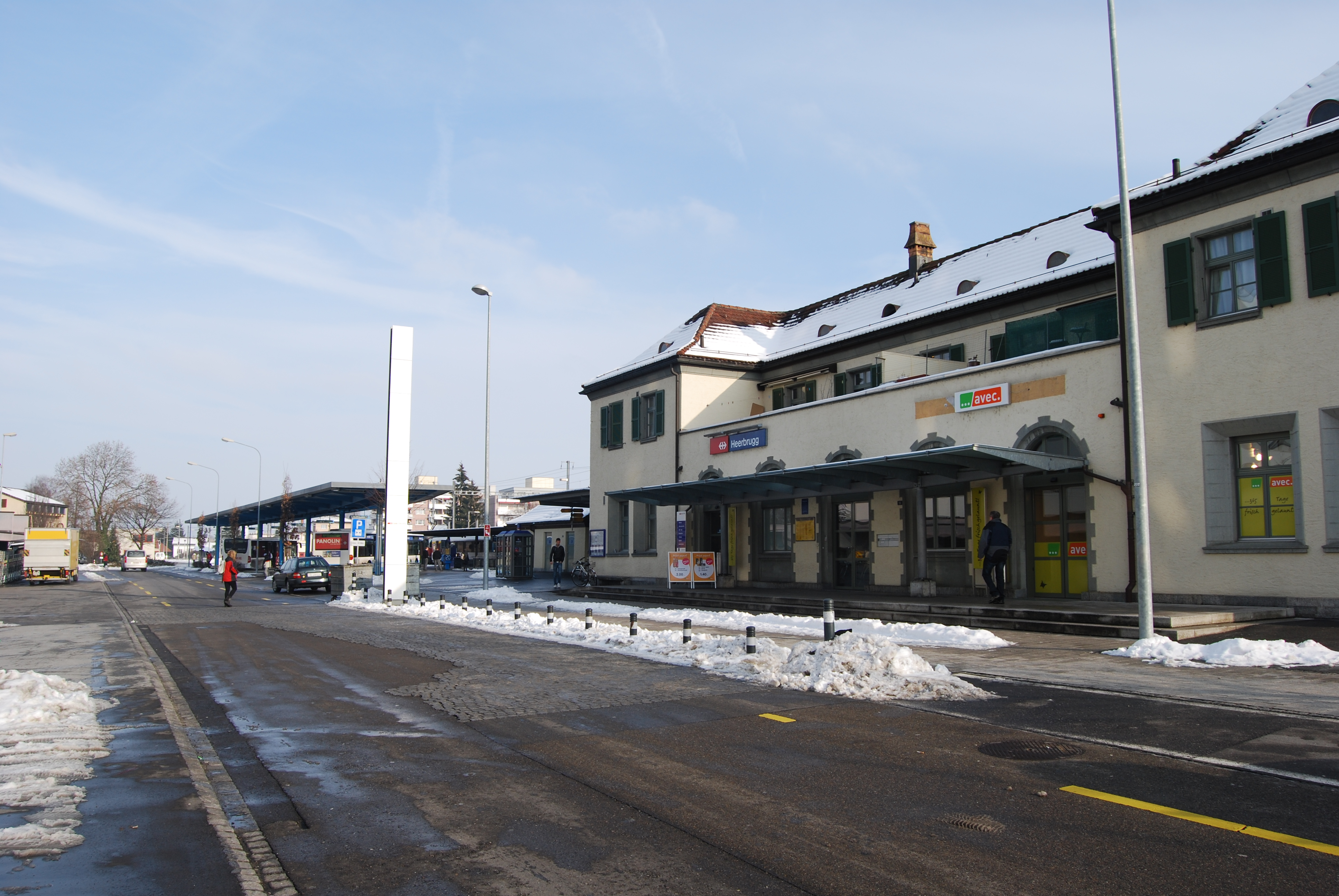 Trainstaiton of Heerbrugg, municipality of Au, canton of St. Gallen, SwitzerlandEsperanto: Stacidomo de Heerbrugg, komunumo Au, Kantono Sankt-Galo, Svislando